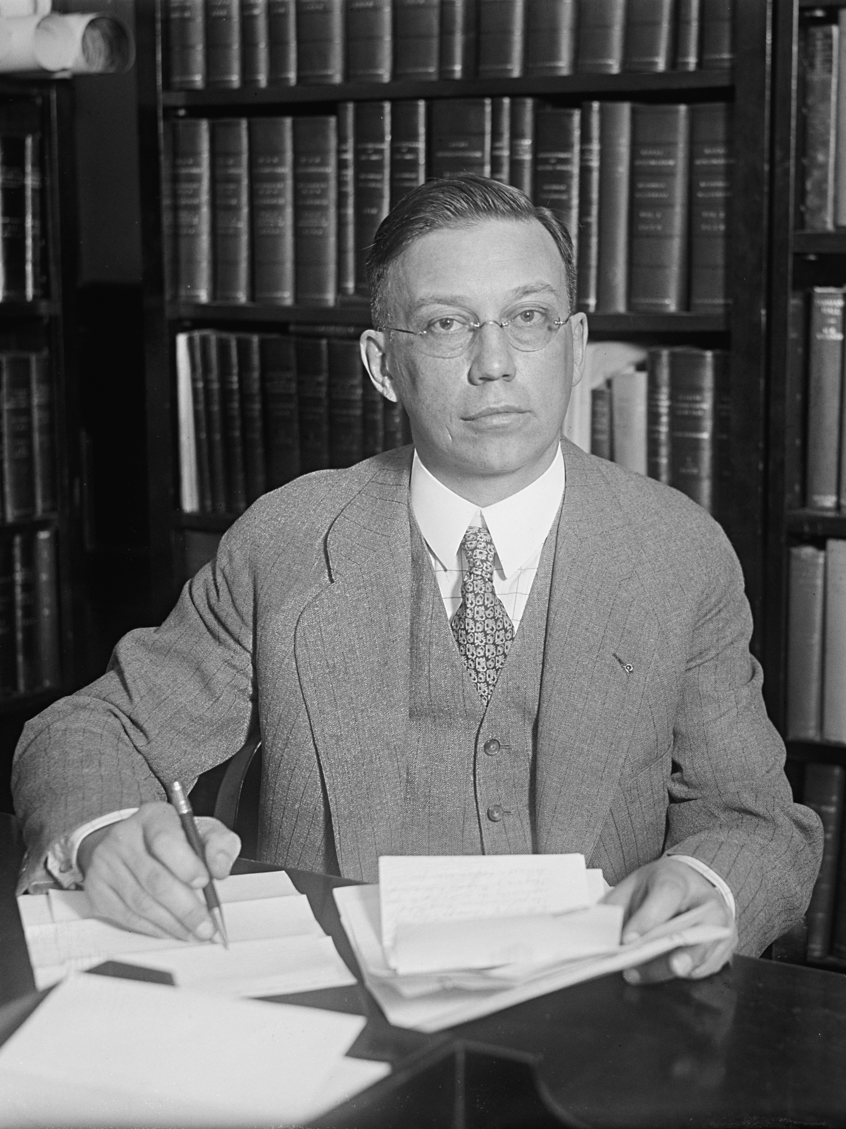 Title: Walter H. Newton, [3/16/29] Abstract/medium: 1 negative : glass ; 4 x 5 in. or smaller